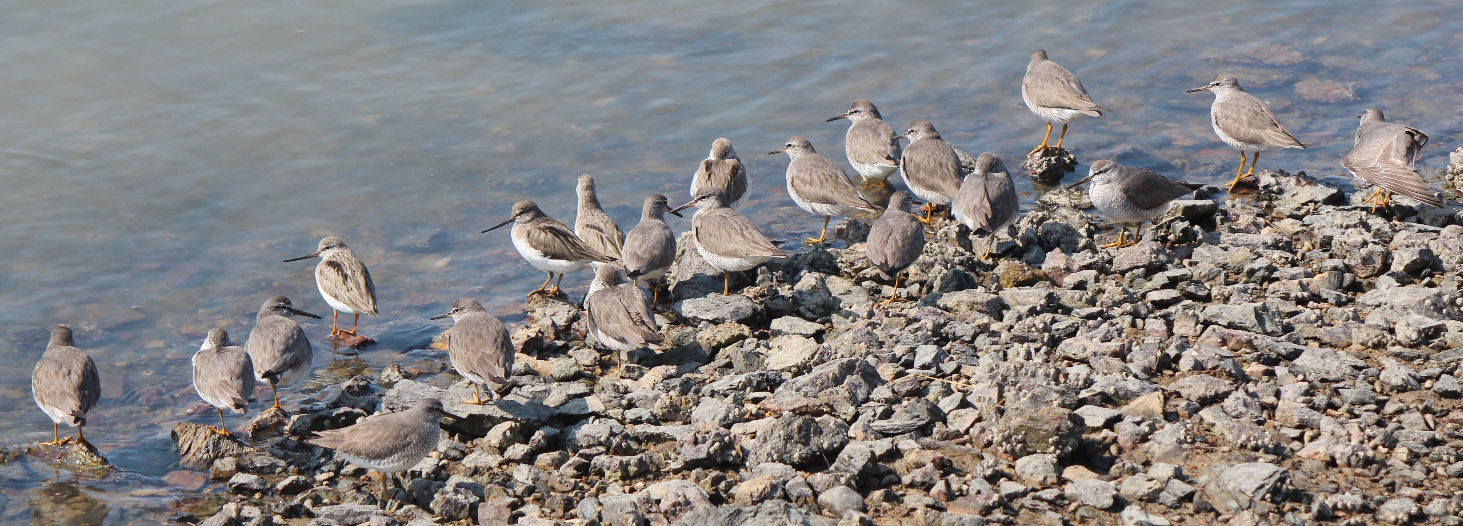 Tringa brevipes (Grey-tailed Tattler) flocks and two Xenus cinereus on seashore (Shiokawa Higata), in Japan.